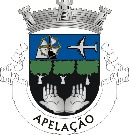 Ancient crest of Apelação parish, Loures municipality (Portugal) Made by User:Brian Boru, based on a crest of Sérgio Horta